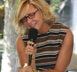 hollis with mic